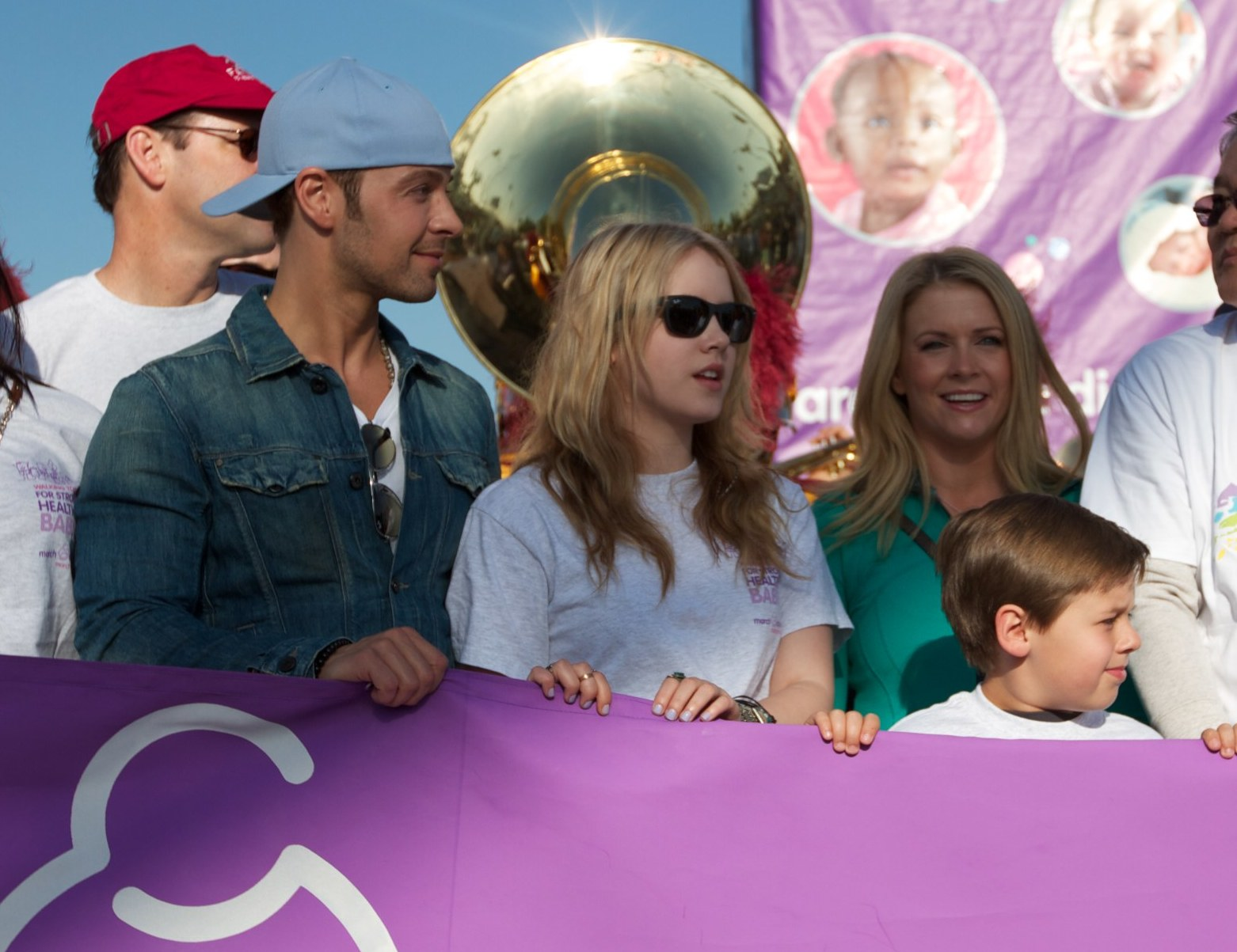 March of Dimes 483